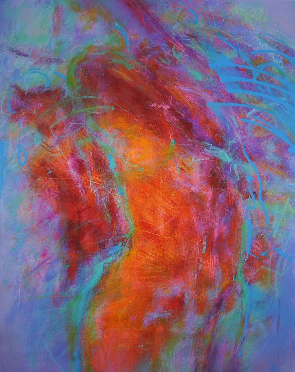 Act in Blues painting by Antoni Karwowski.